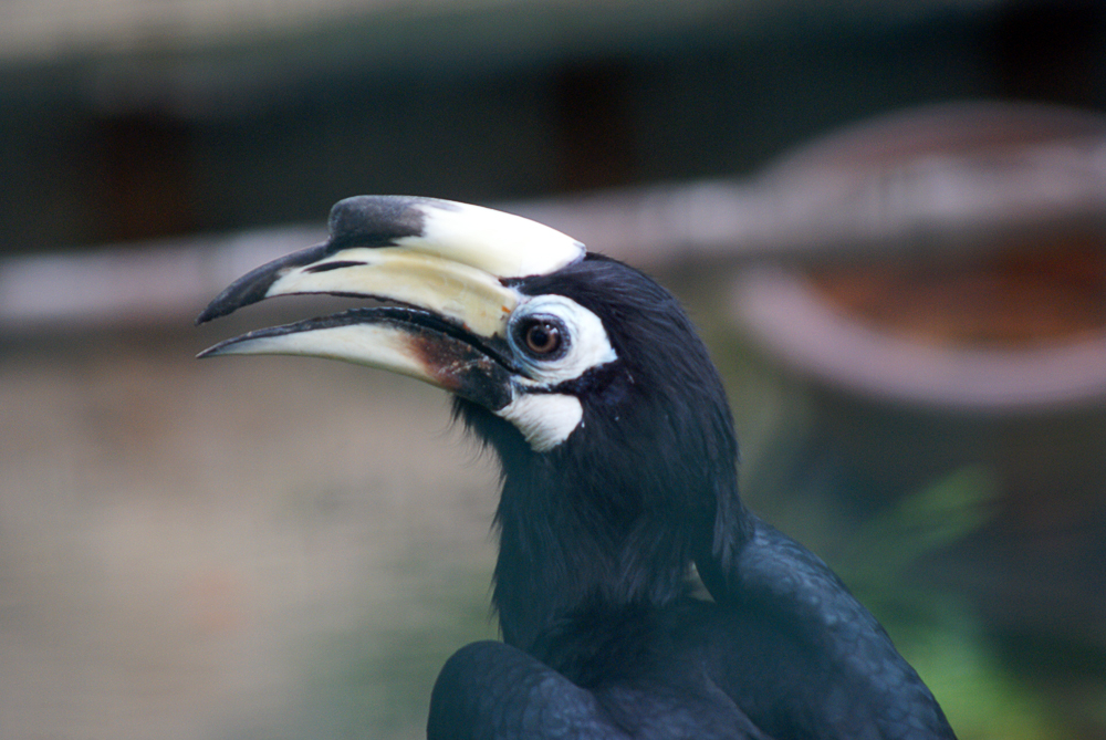 Oriental Pied-hornbill at Kuala Lumpur Bird Park, Malaysia.